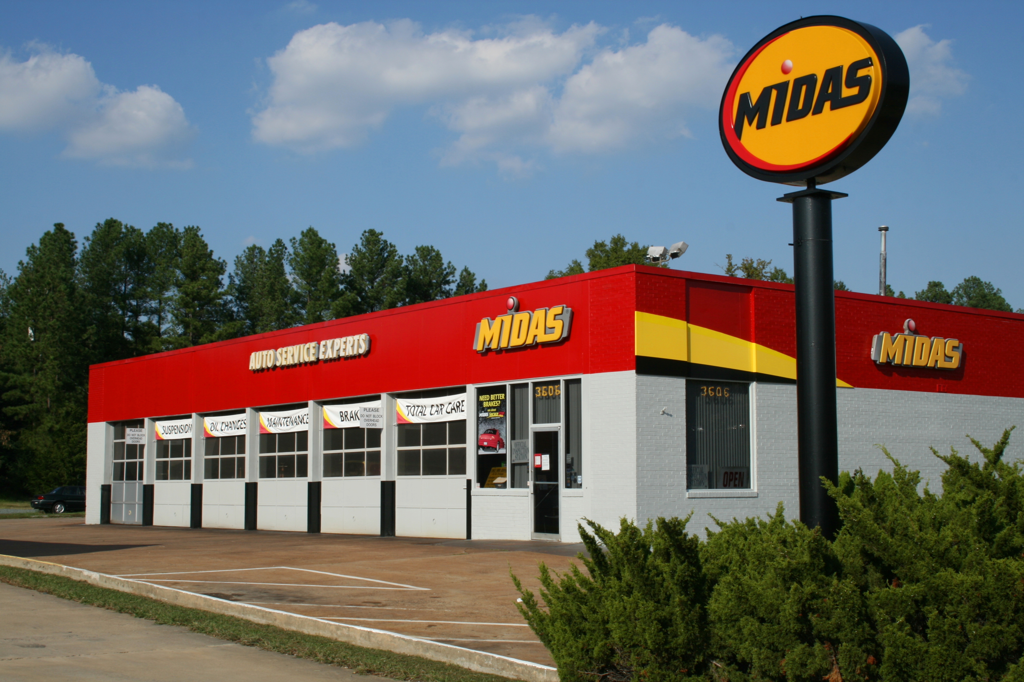 Midas Auto Service Experts at 3606 Durham-Chapel Hill Boulevard in Durham, North Carolina.